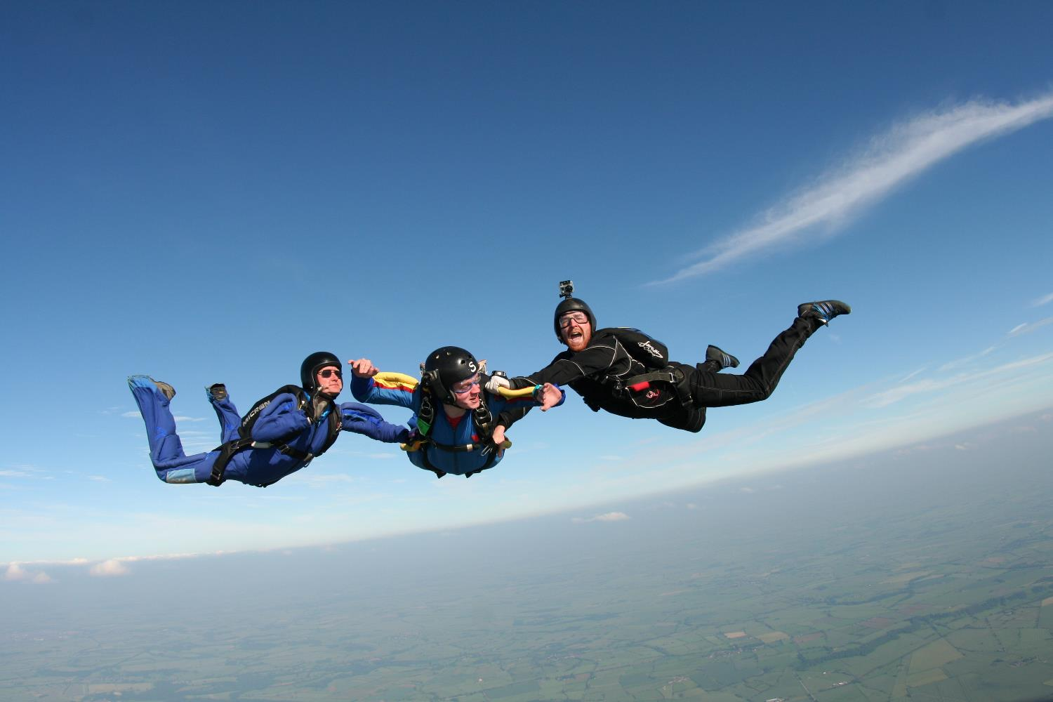 Level 1 of 8 in Accelerated freefall at Langar Airfield